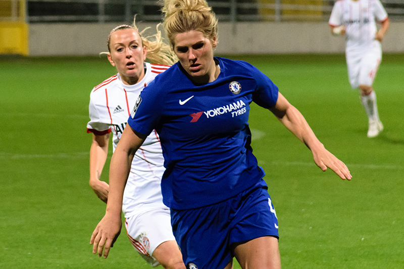 Millie Bright playing for Chelsea in October 2017